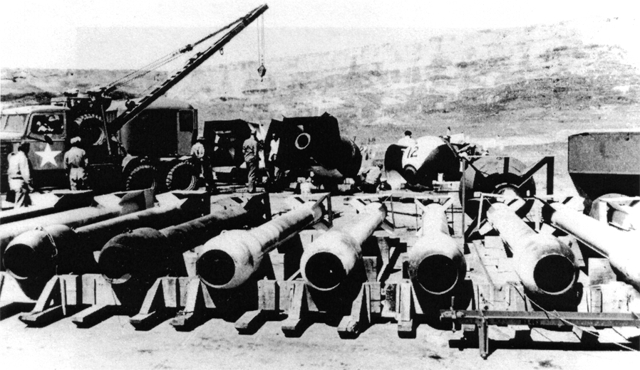 Casings for the "Thin Man" plutonium gun design weapons being developed during the Manhattan Project as part of Project Alberta at Wendover Field, Utah (additional "Fat Man" test casings can be seen in the background as well). The plutonium gun design was eventually abandoned as infeasible, as the spontaneous fission rate of reactor-bred plutonium was much higher than expected.